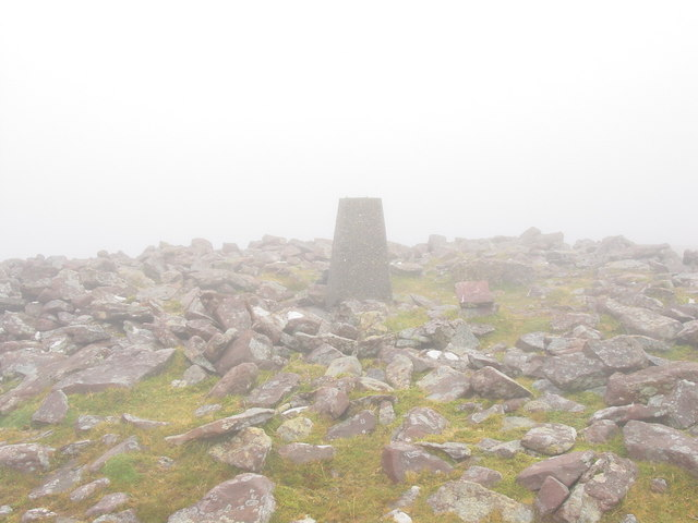 A foggy day on the summit of Baurtregaum, Slieve Mish The trig point on Baurtregaum, the highest point on the Slieve Mish Mountains. I had ascended from Killelton via Gearhane and Caherconree, an excellent ridge walk if I could have seen it but it was all in thick mist.